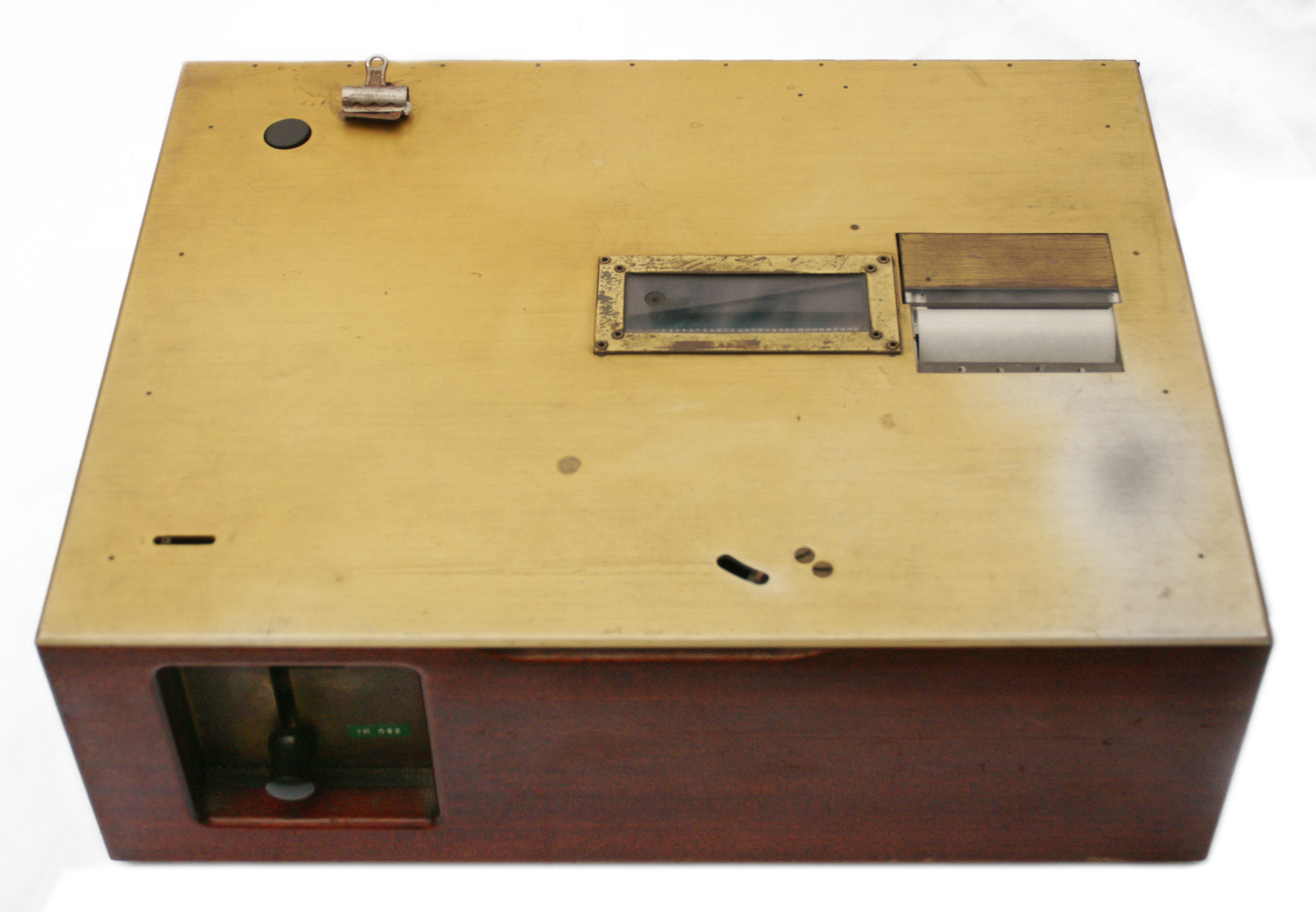 Teaching machine, designed by B. F. Skinner